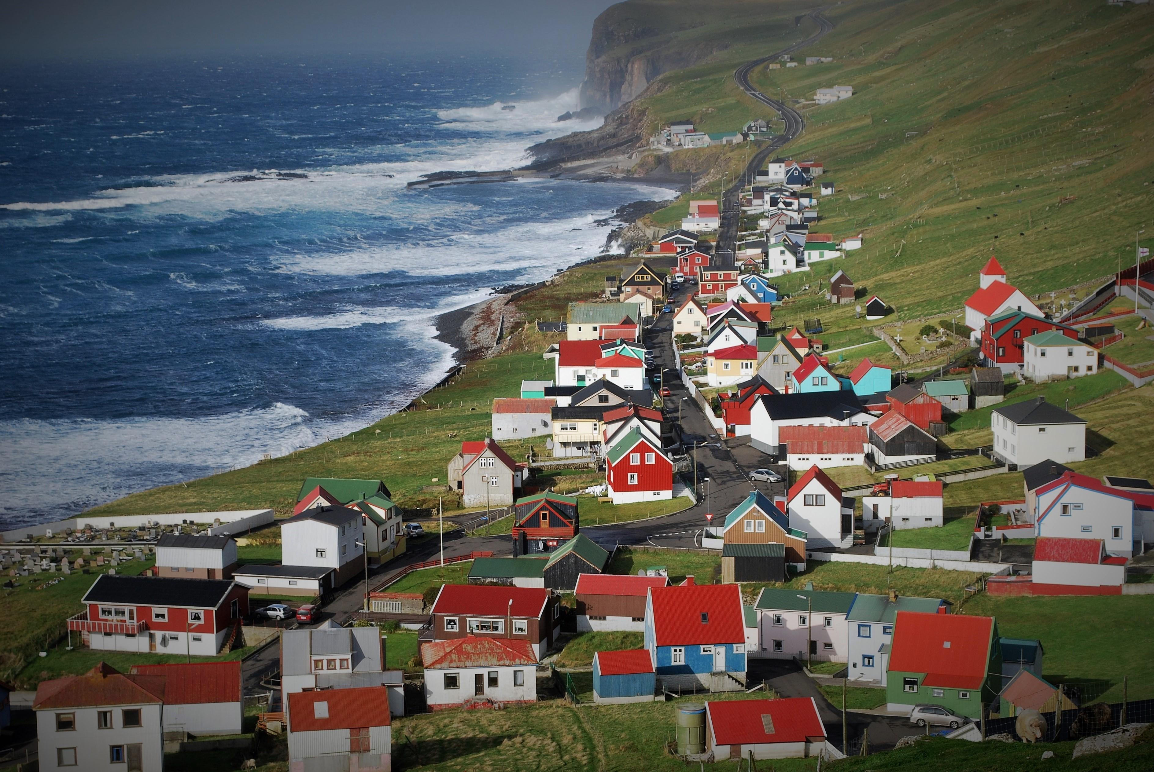 Sumba, Suðuroy, Faroe Islands